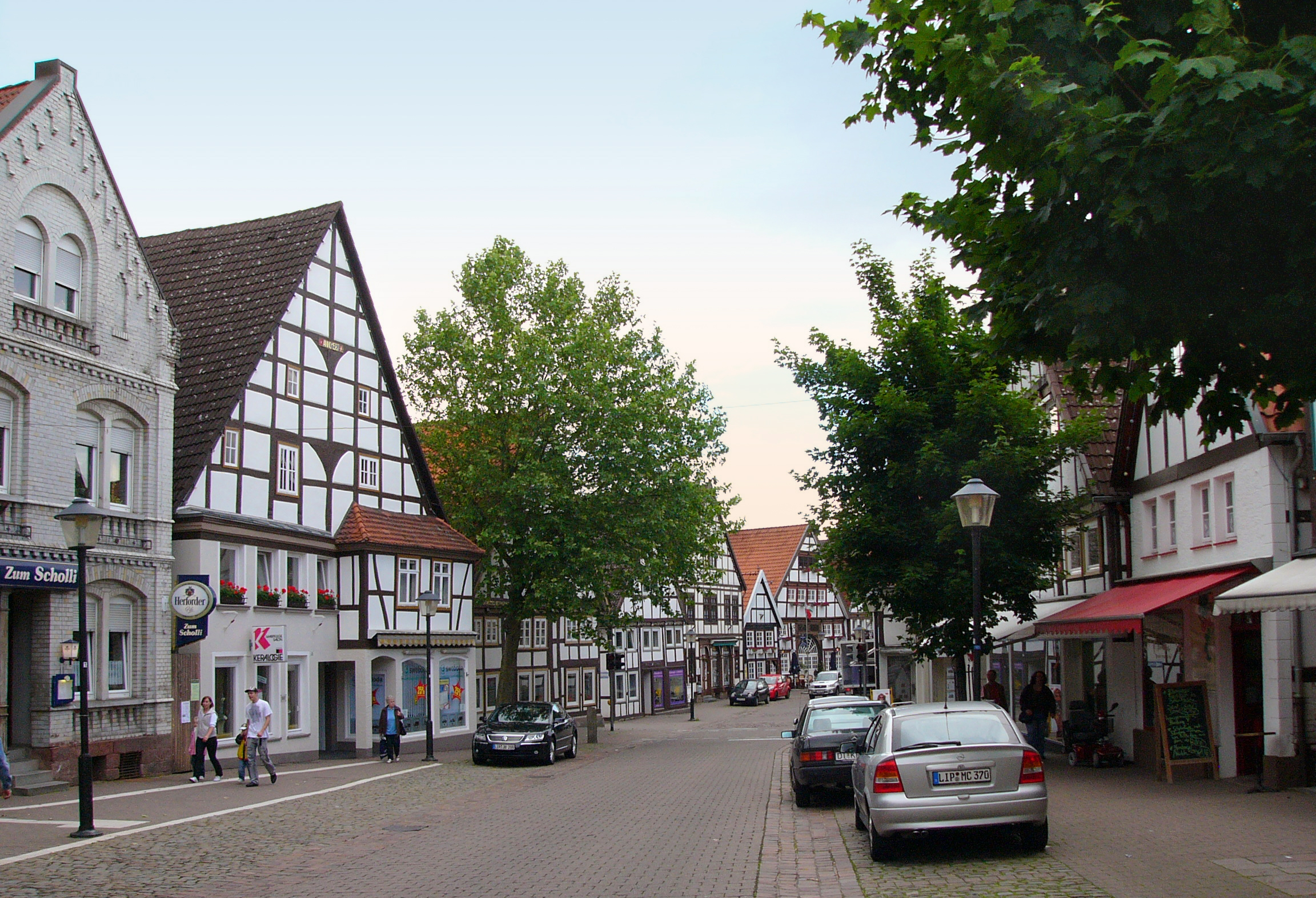 Neue Torstrasse in Blomberg, Germany